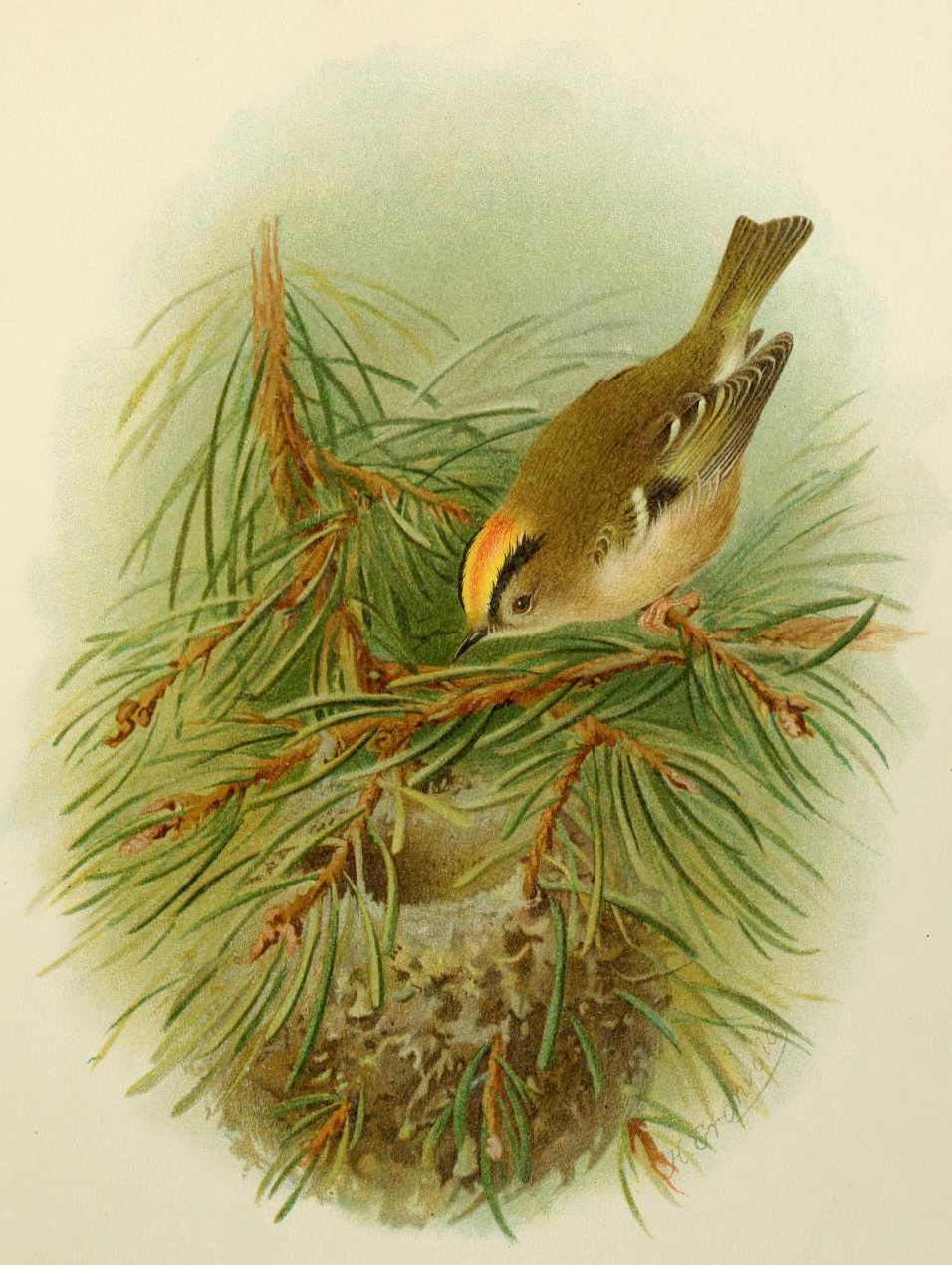 An illustration of a Goldcrest at its nest by Henrik Grönvold